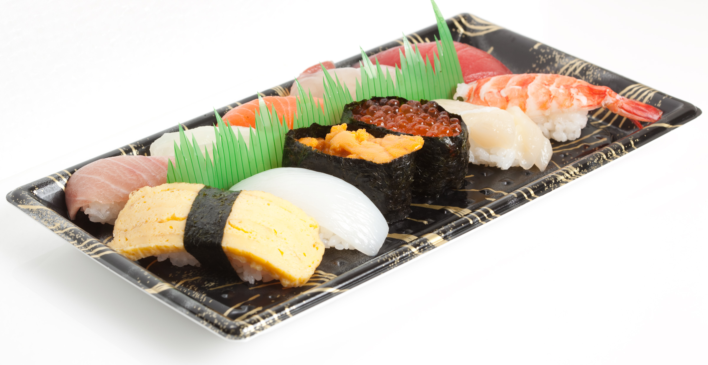 Typical Japanese sushi set, as sold in department stores.